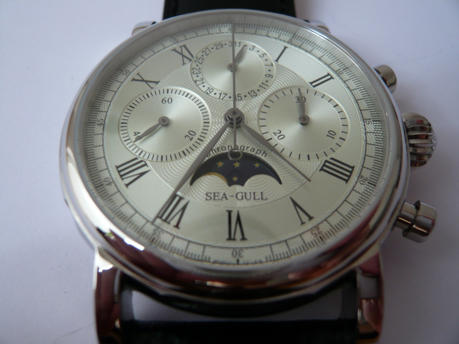 View of the Se-Gull M199S Chronograph manufactured by Tianjin Seagull Watch Group